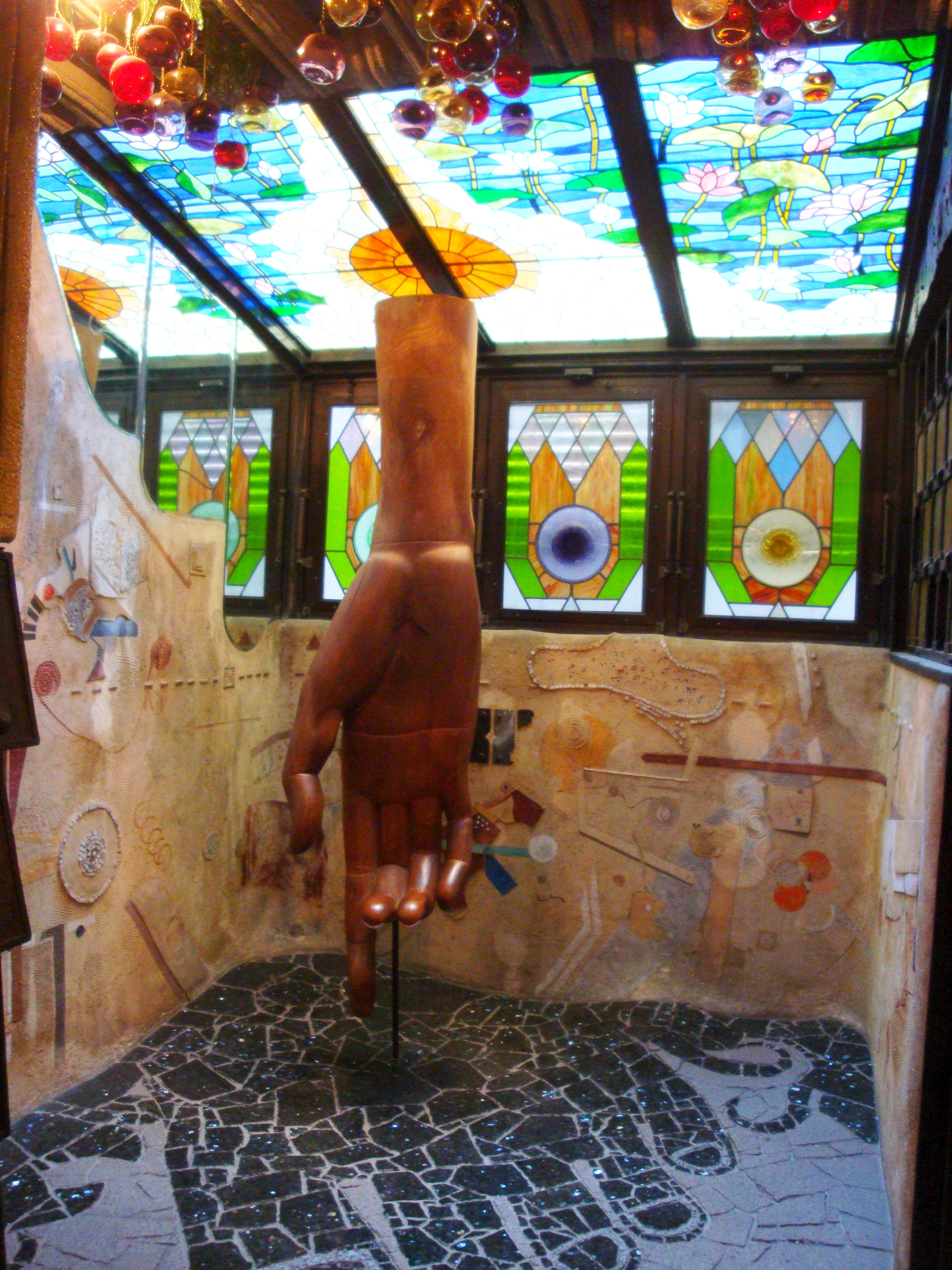 "Waseda El Dorado" Building by Von Jour Caux (Toshiro Tanaka), near the Waseda University Campus, Shinjuku, Tokyo. Lobby.